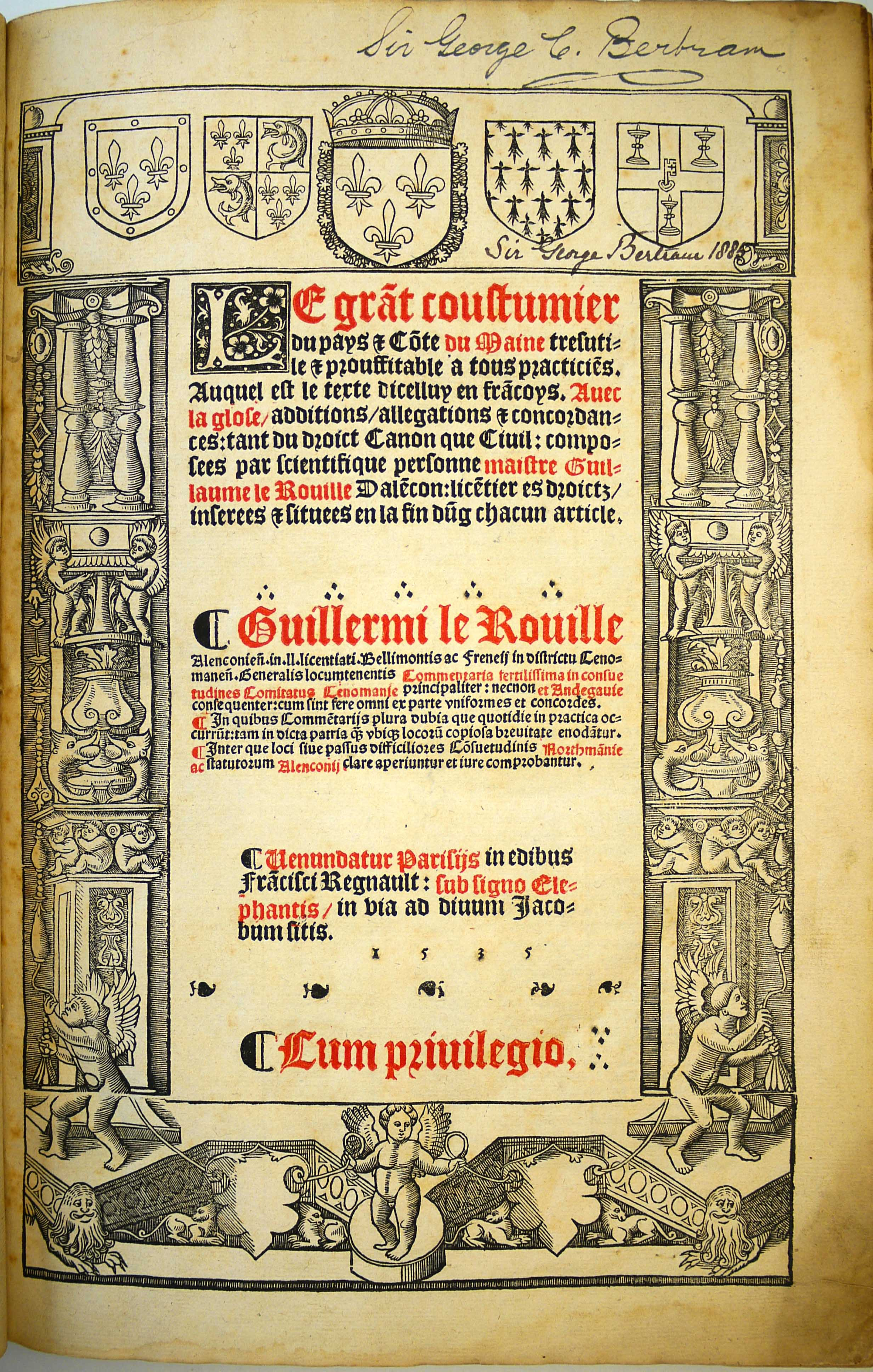 Le Rouille commentary on Maine customary law 1535